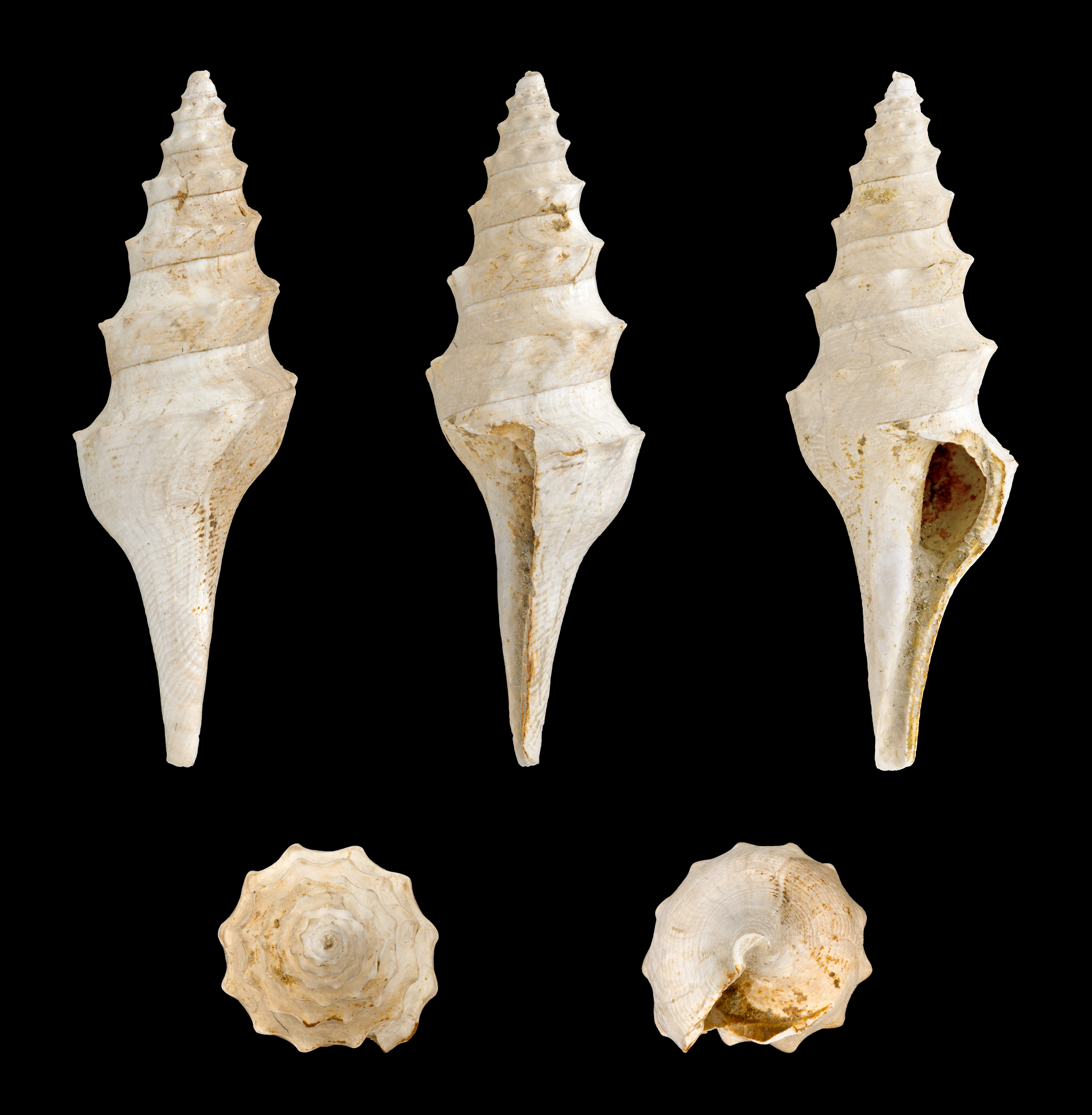 Length 3.6 cm; Pliocene; Baschi, Italy; Shell of own collection, therefore not geocoded. Dorsal, lateral (right side), ventral, back, and front view.